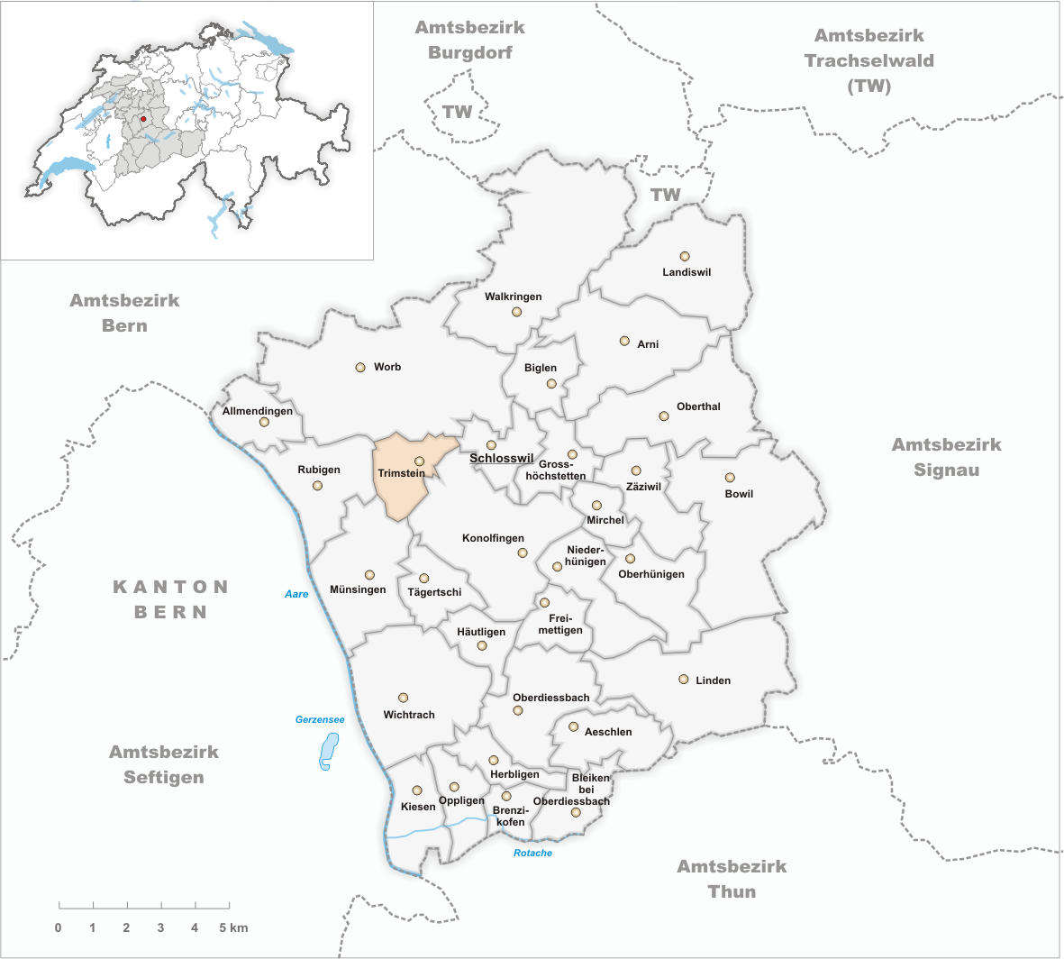 Municipality Trimstein